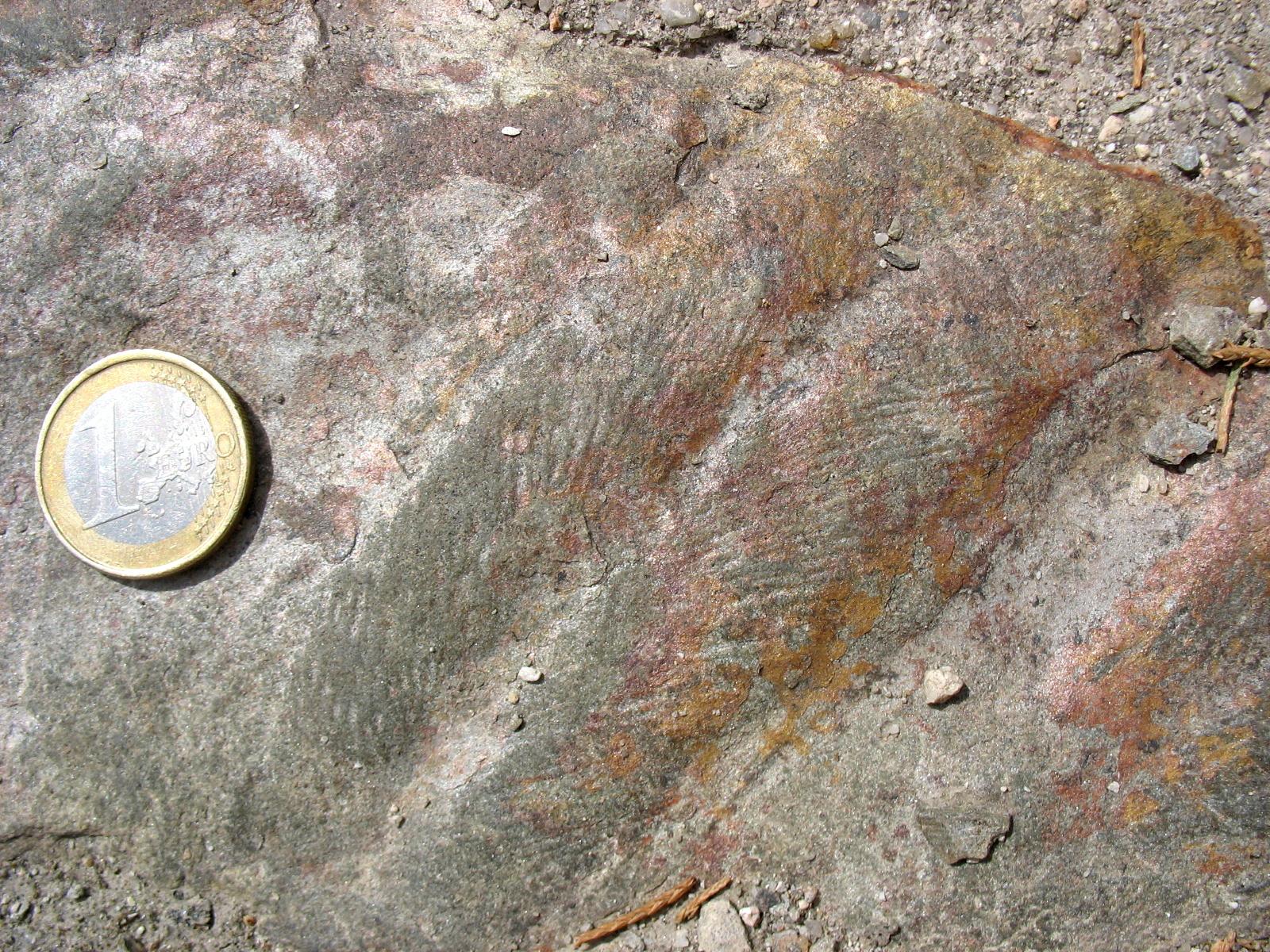 Cruziana sp. On the pavement at the terrace of Madrid 2 shopping center (La Vaguada). Madrid, Spain. (Scale coin: 1 EUR, Ø 23,25 mm)